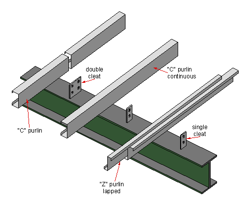 Bill Bradley, aka builderbll, billbeee My own work Feel free to use the work without removing my signature. You can contact me at my website for higher definition images.My site.